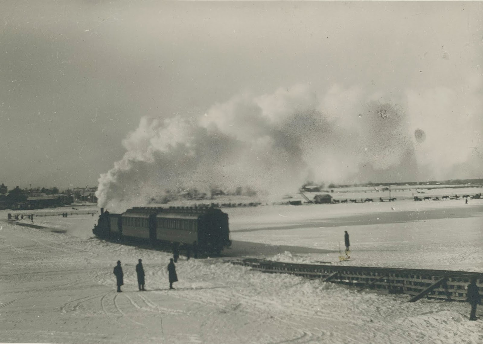 Maria Fedorovna's train over the river of Tornio